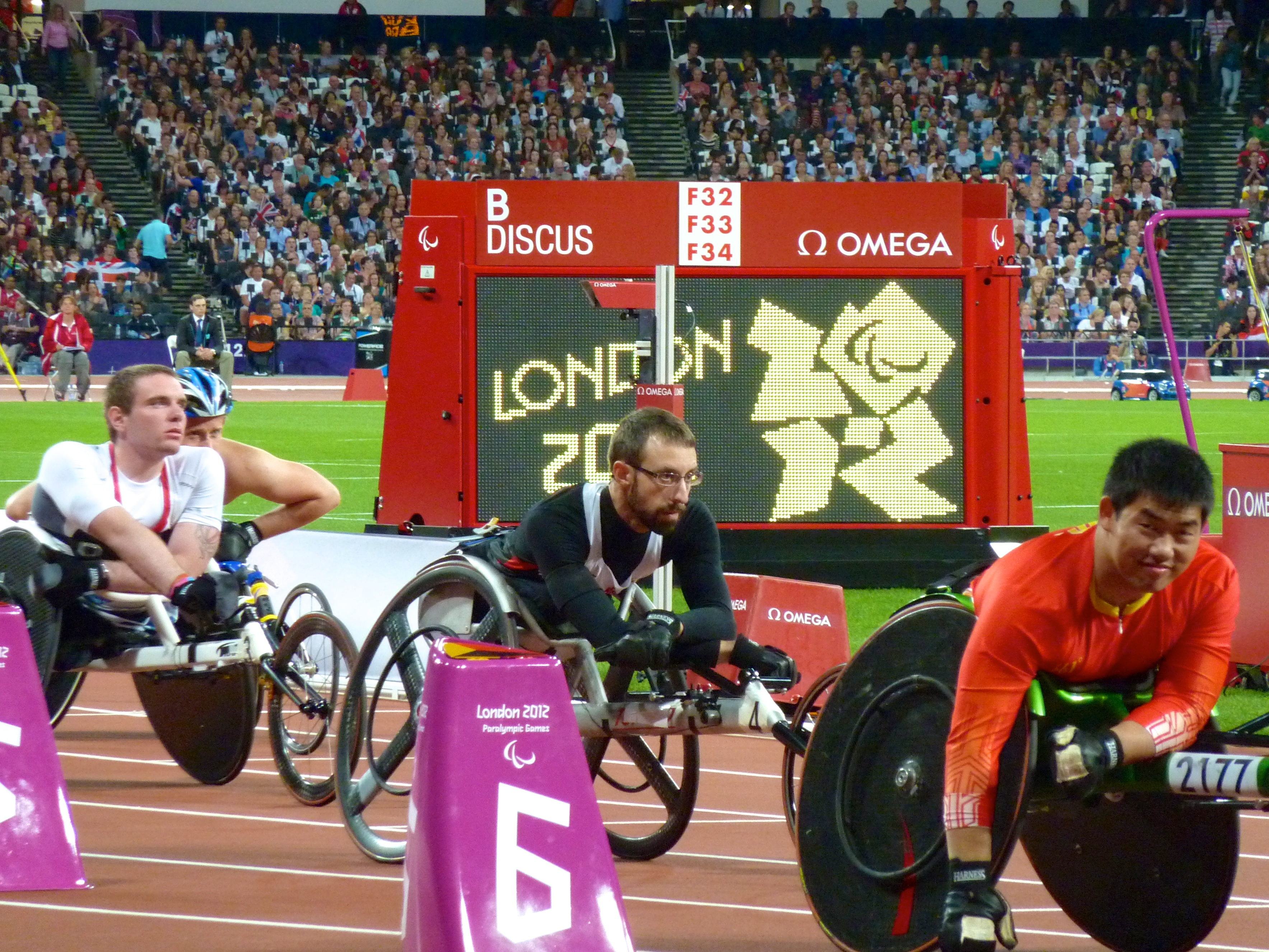 The racers preparing for the Men's 200m T53 final. On the left (front) is Mickey Bushell of Great Britain, the central athlete is Canada's Brent Lakatos, while the athlete in red is China's Zhao Yufei (2177).[1]